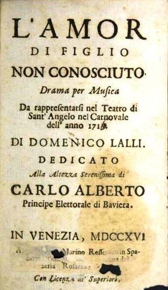 Title page of the libretto for the opera L'amor di figlio non conosciuto, printed for its premiere in Venice in 1716 . The music was composed by Tomaso Albinoni (1671– 1751)